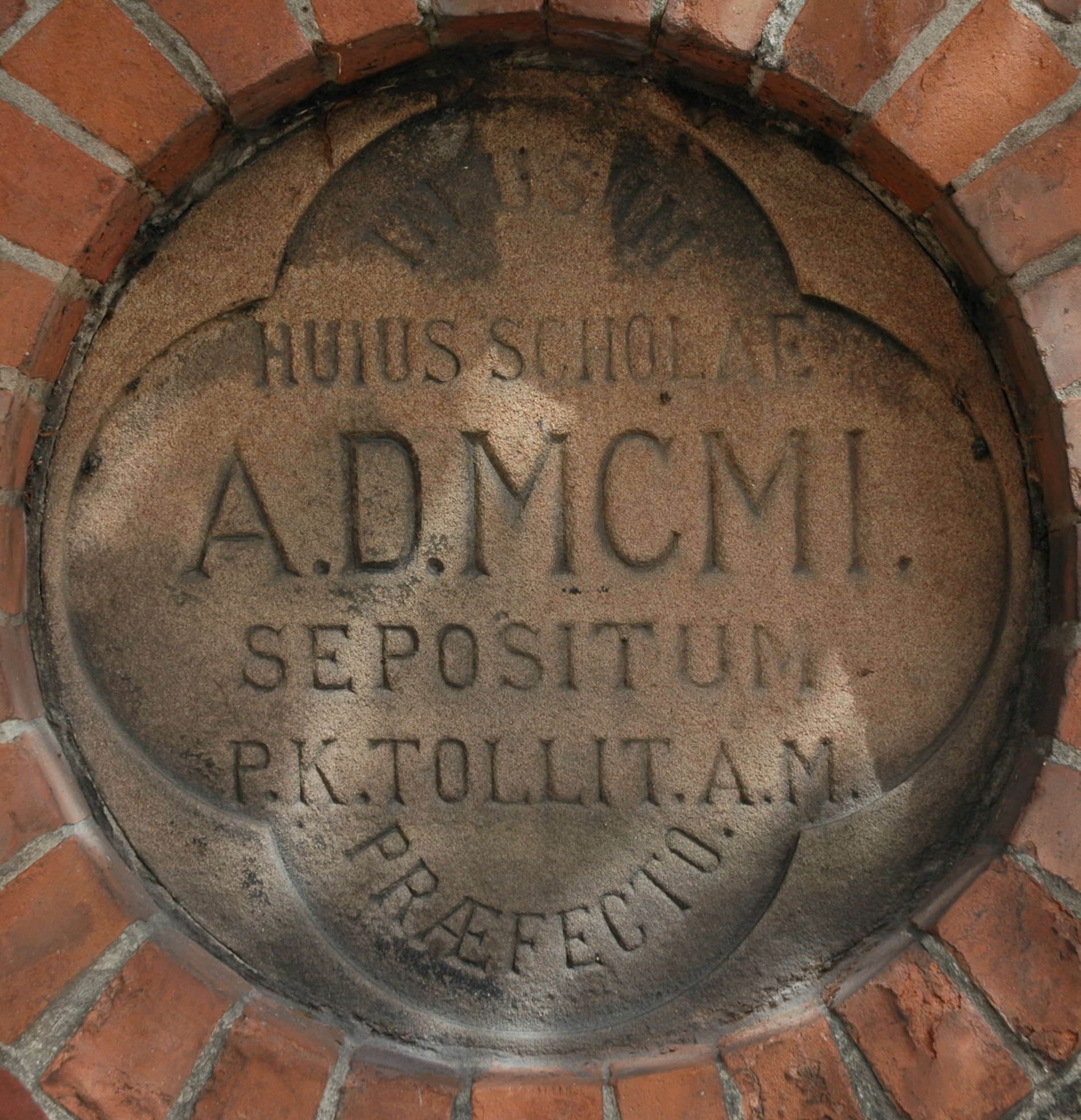 DateStone on Wall of former Derby School, King Street Derby